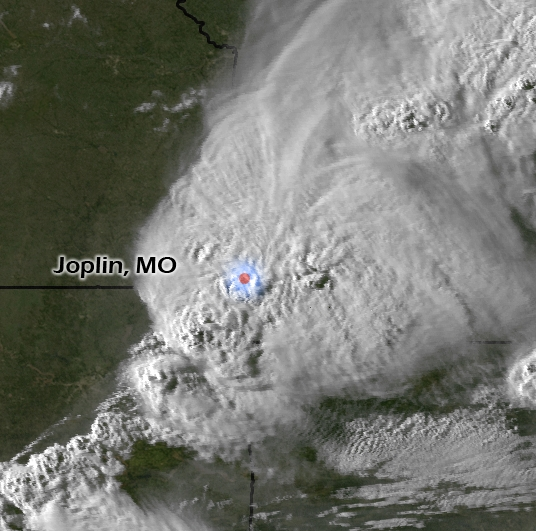 NOAA satellite image of a thunder storm minutes before a large tornado formed over Joplin, Missouri